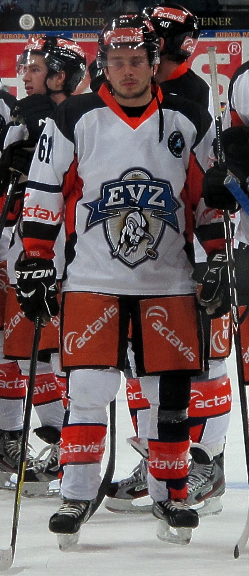 Corsin Casutt, ice hockey player from Switzerland, forward